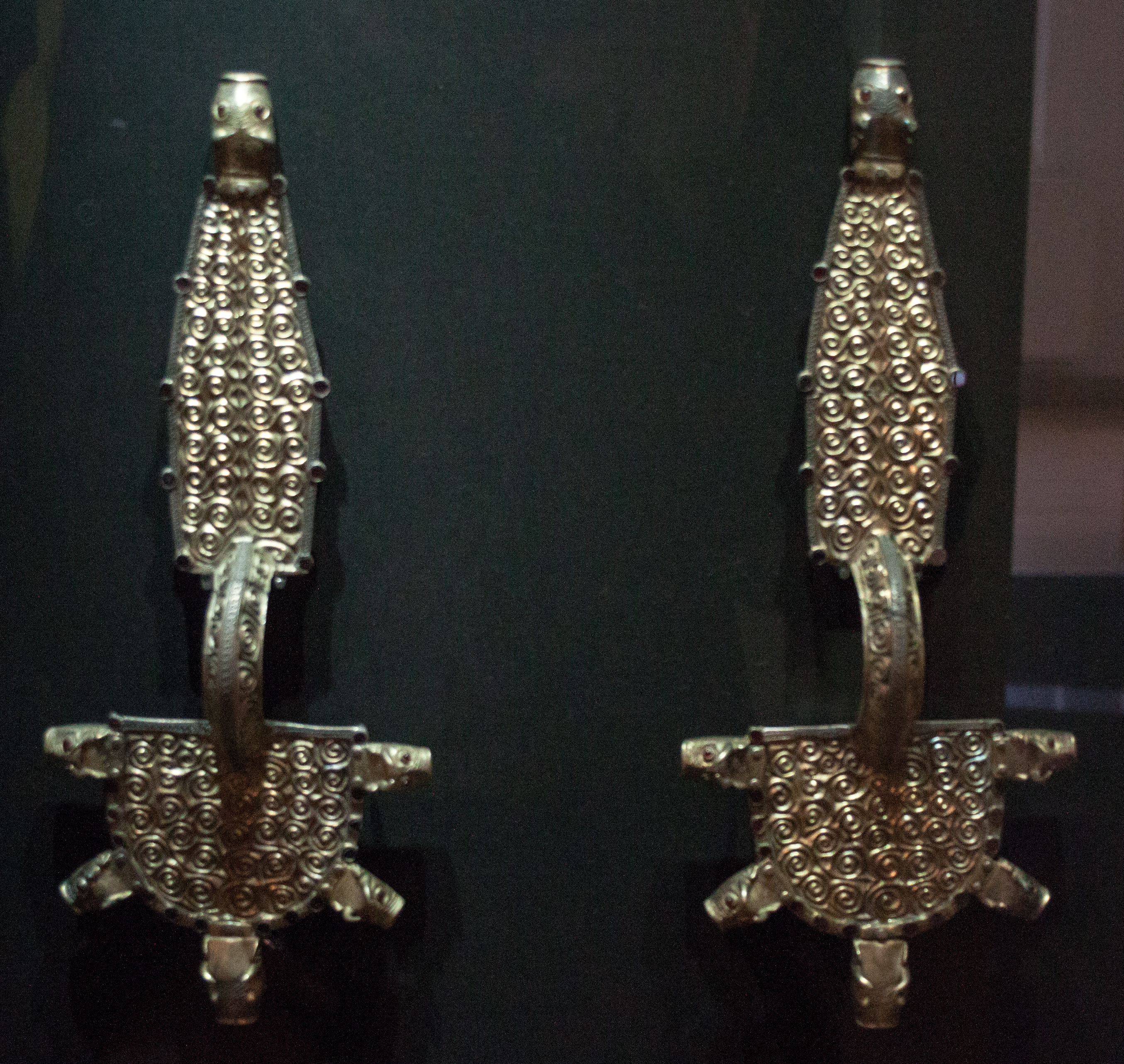 Local finds from the age of Huns